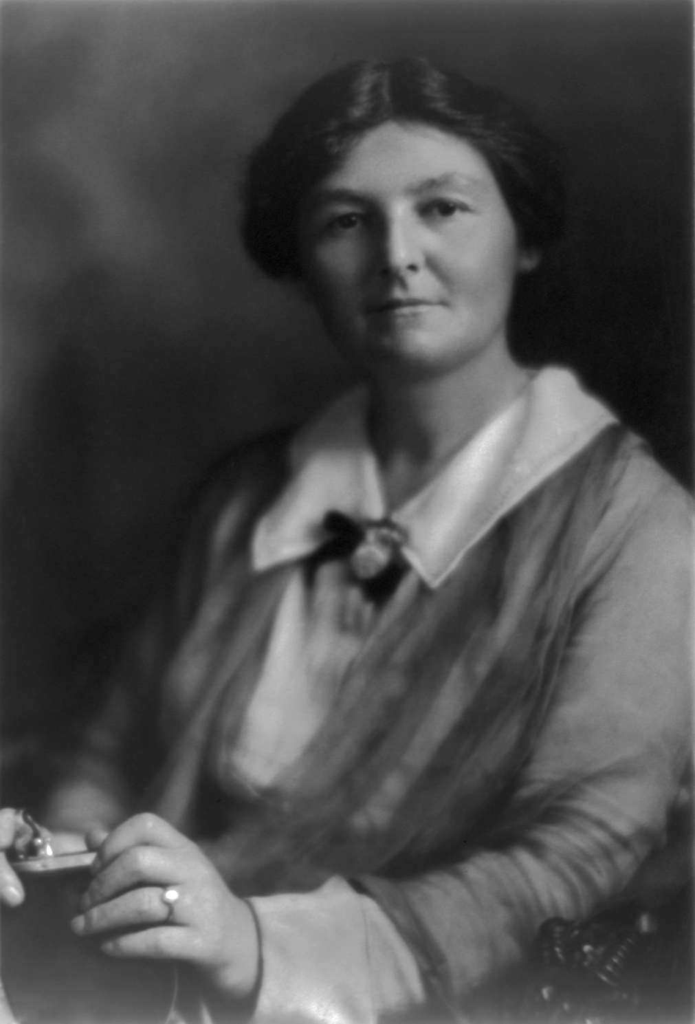 English politician and feminist Margaret Bondfield (1873-1953)